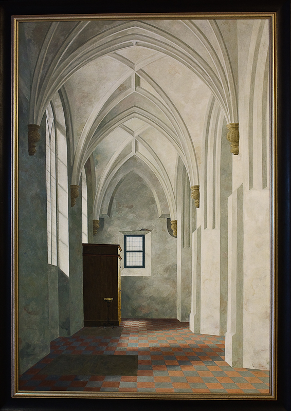 High white arch with entrance and tiled floor